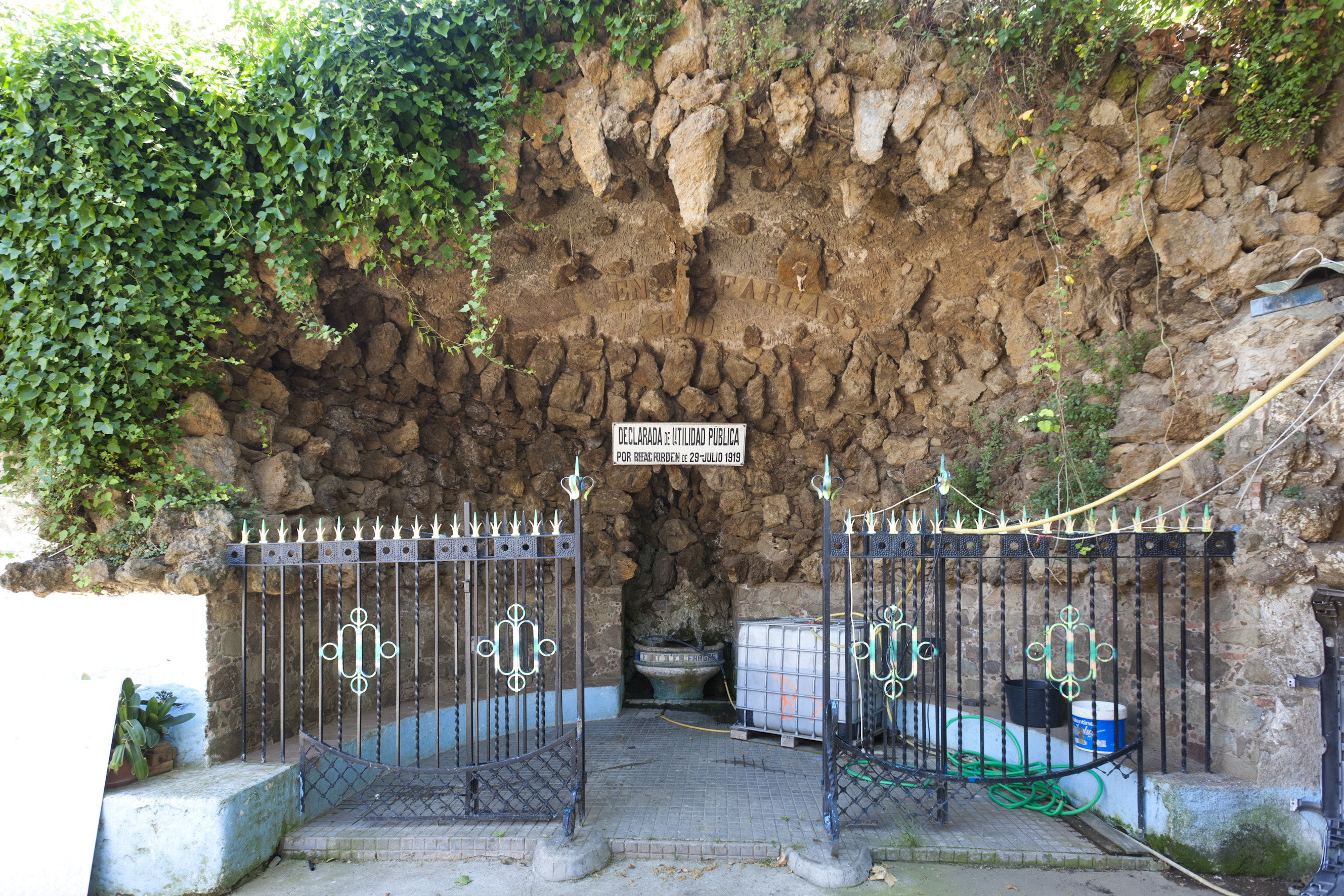 Historical Routes at the Horta-Guinardó District Administration in Barcelona This image was provided to Wikimedia Commons by the Horta-Guinardó District Administration in Barcelona as part of an ongoing cooperative project with Amical Viquipèdia. English | +/−